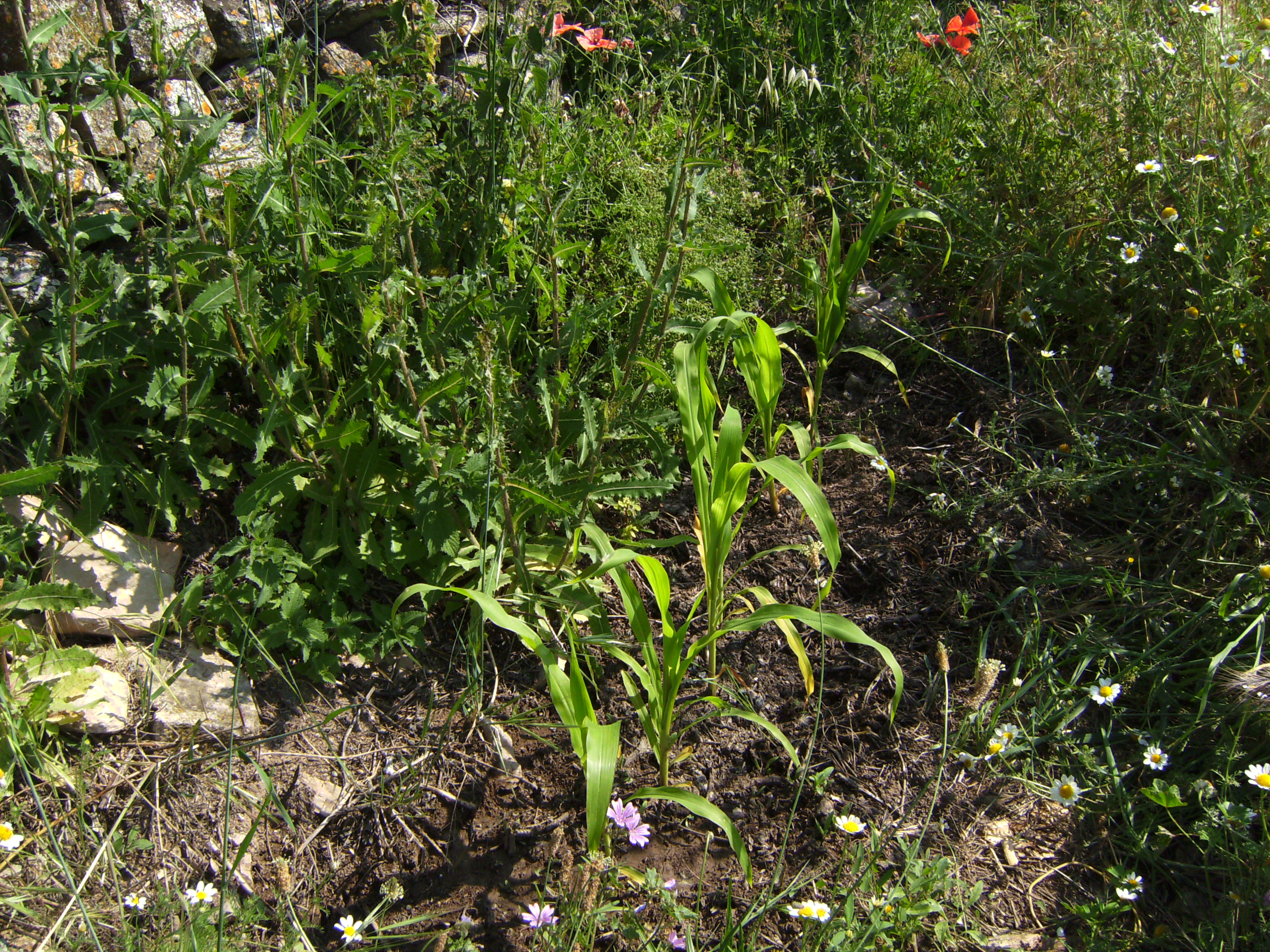 Herbicide glysophate aplication, first hour with not visible effect i weeds at left of the maize plants. Castelltallat, Catalonia